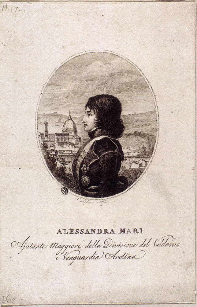 Alessandra Cini better known as Alessandra Mari because her husband captain Lorenzo Mari. She was one of the leaders of the antinapoleonic resistance movement called "Viva Maria" on 1799 in Tuscany